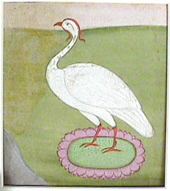 Creation Date: ca. 1750 Display Dimensions: 6 25/32 in. x 6 1/32 in. (17.2 cm x 15.3 cm) Credit Line: Edwin Binney 3rd Collection Accession Number: 1990.1189 Collection: The San Diego Museum of Art